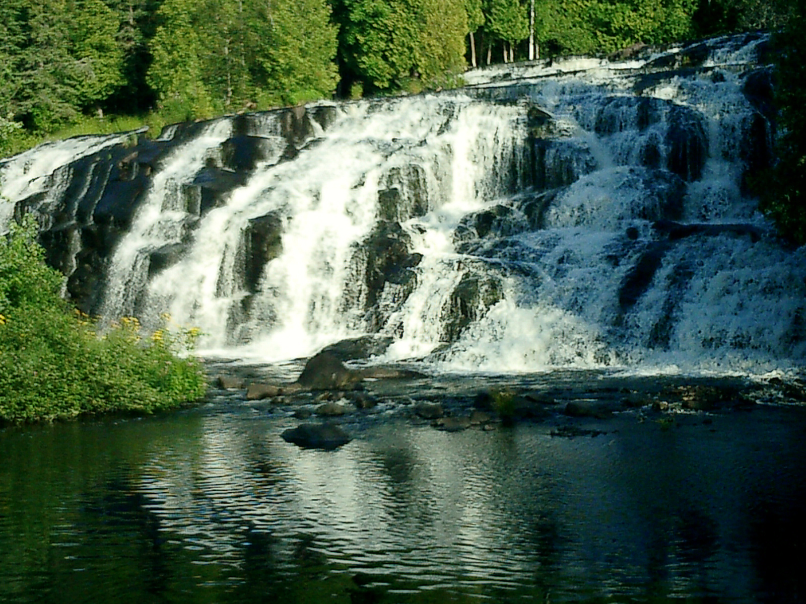 A picture of Bond Falls in northern Michigan, United States